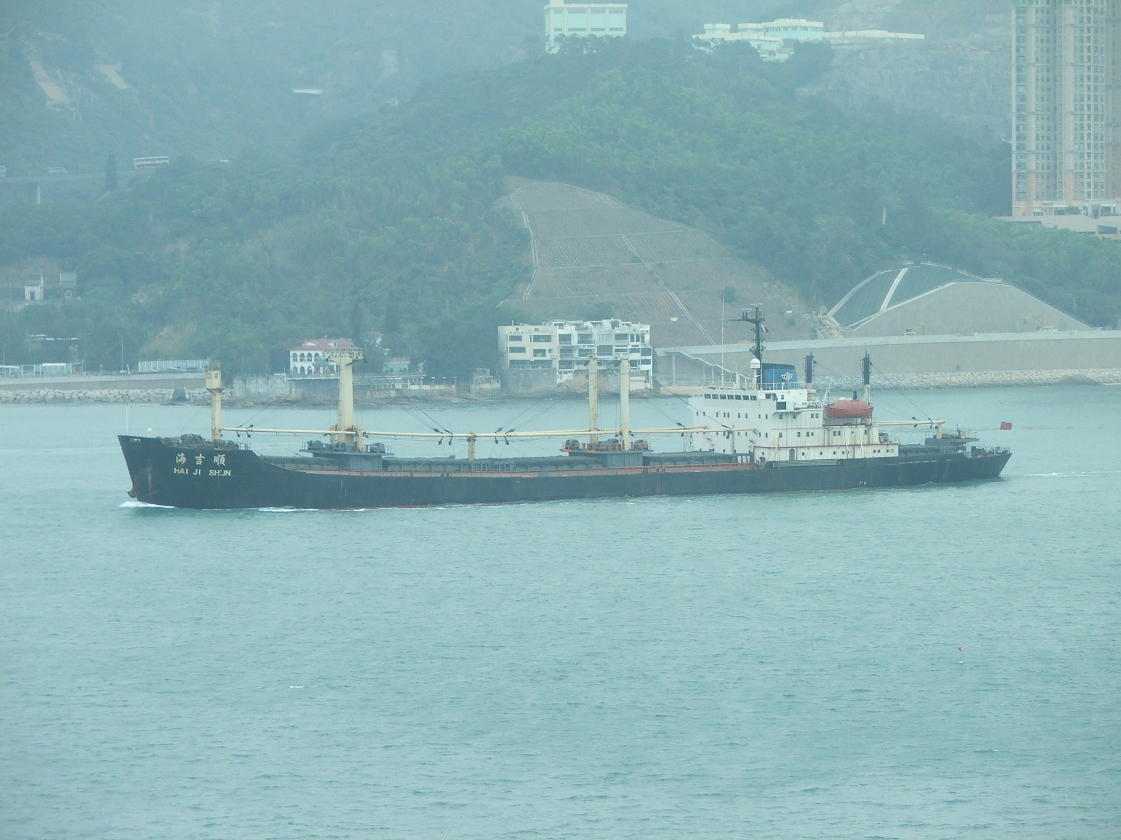 Austin & Pickersgill SD 14 Type Standard Freighter Hai Ji Shun IMO Number: 7422805 MMSI Number: 412202570 Callsign: BALD Length: 141 m Beam: 21 m